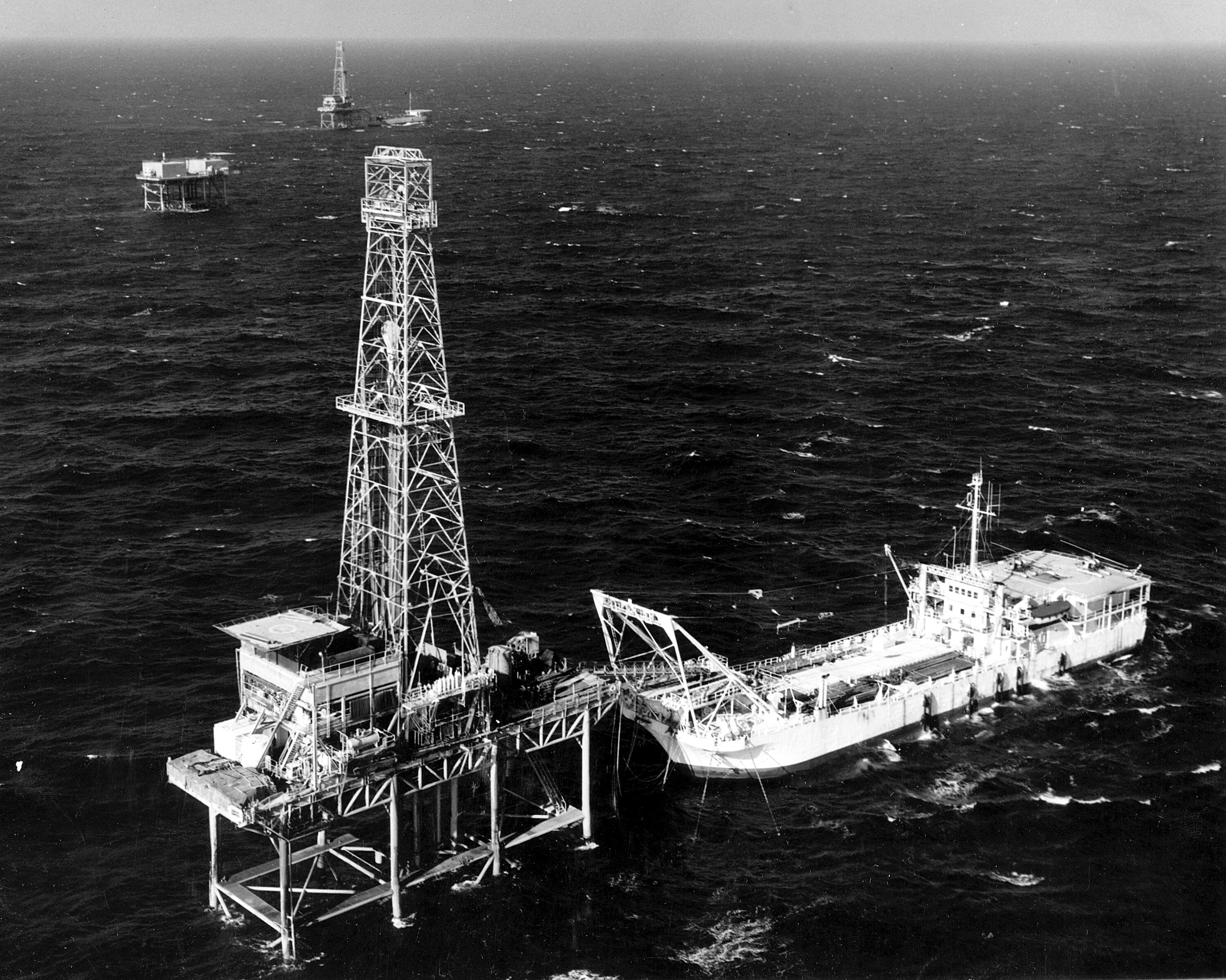 Tender-Patform Rig. Offshore, Louisiana. c. undated For more information or additional images, please contact 202-586-5251.